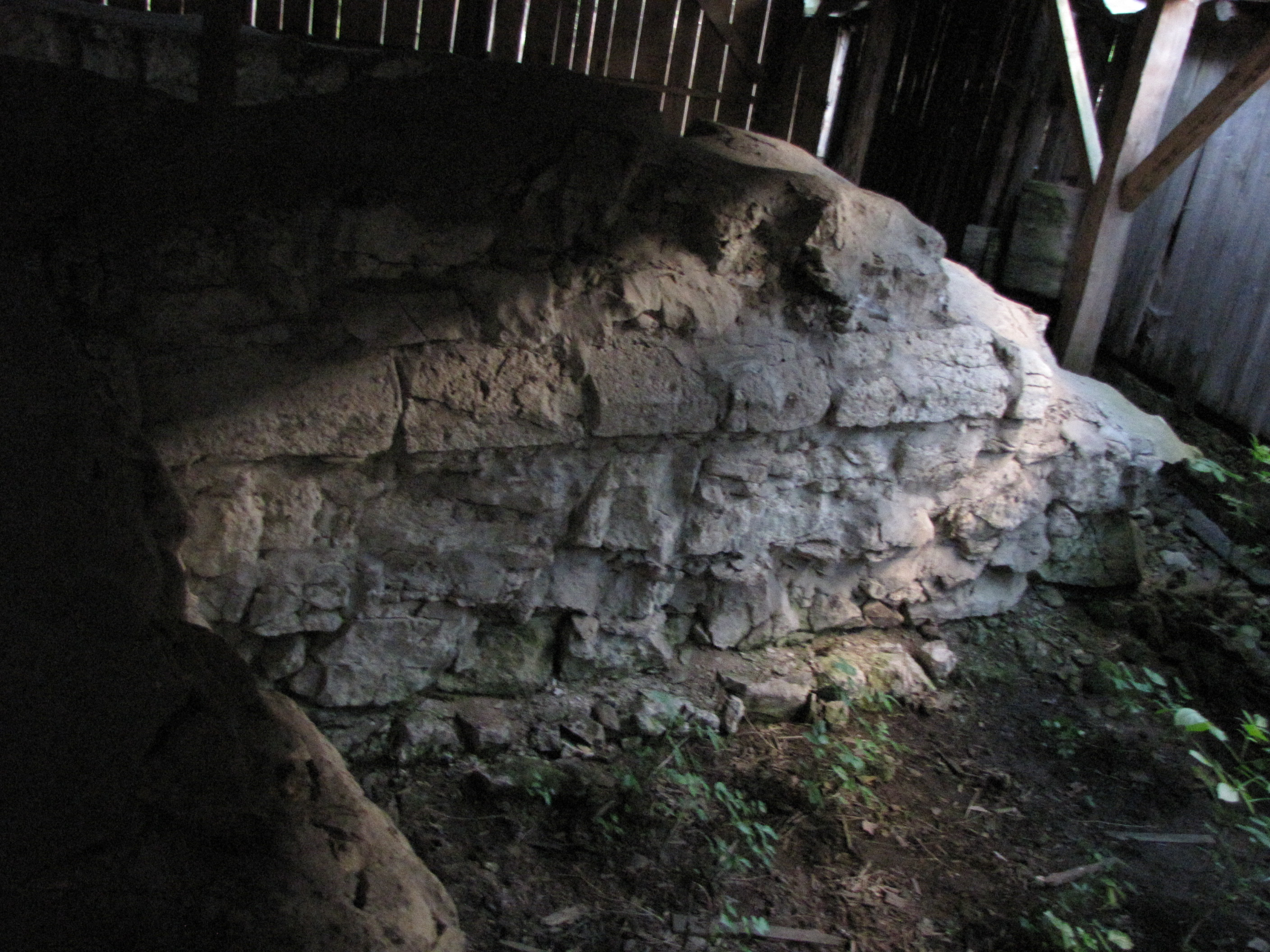 The ruins of the old stone church, XIII century